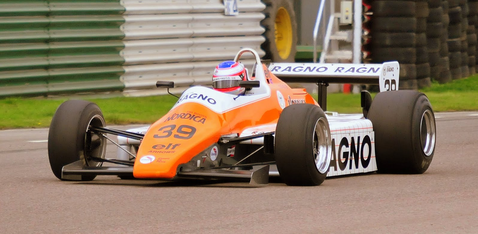 A 1982 Arrows A5 Formula One car, being shaken down during a test session at Mallory Park, October 2009.